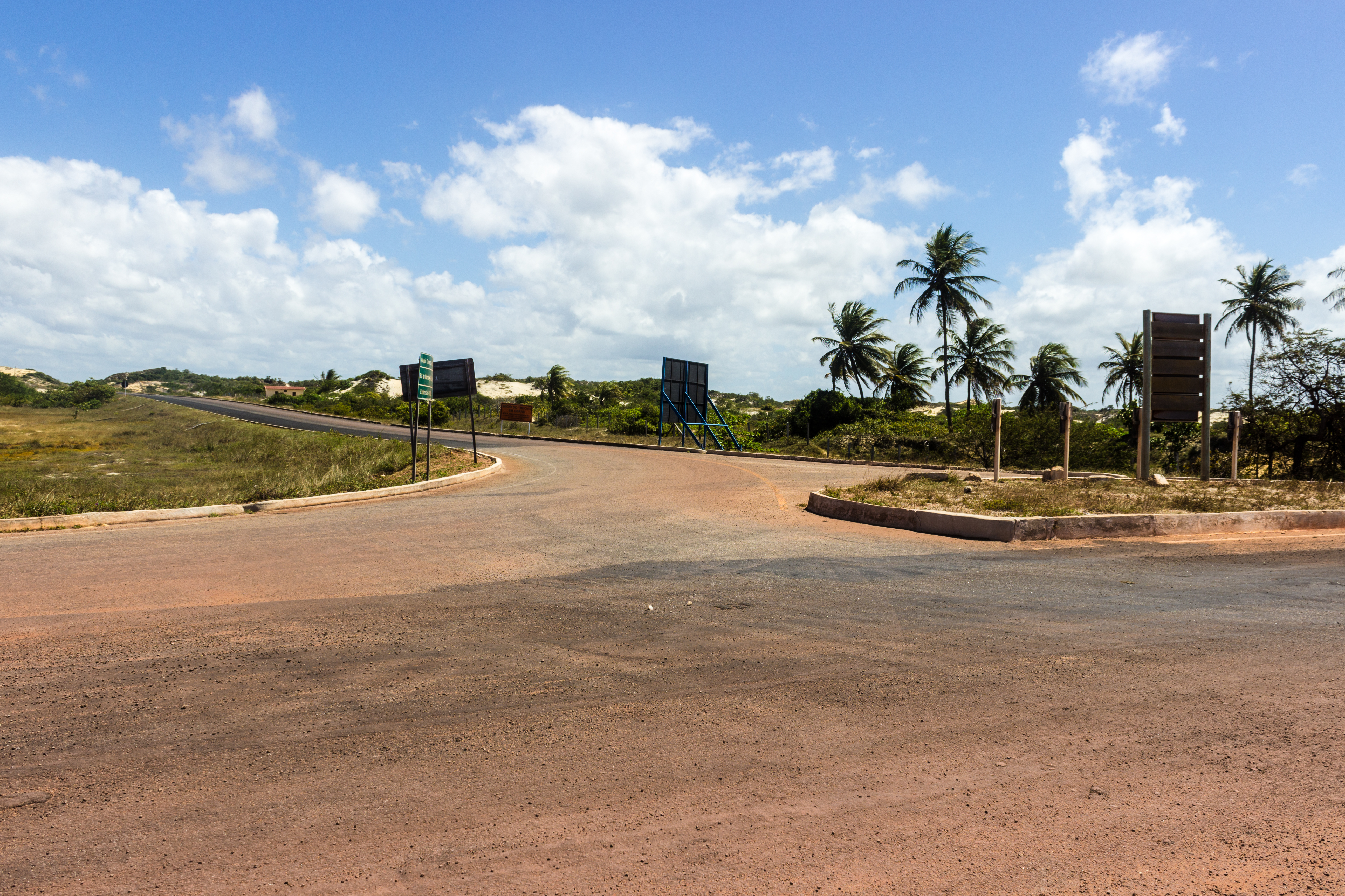 Starting point of BR-101 in Touros